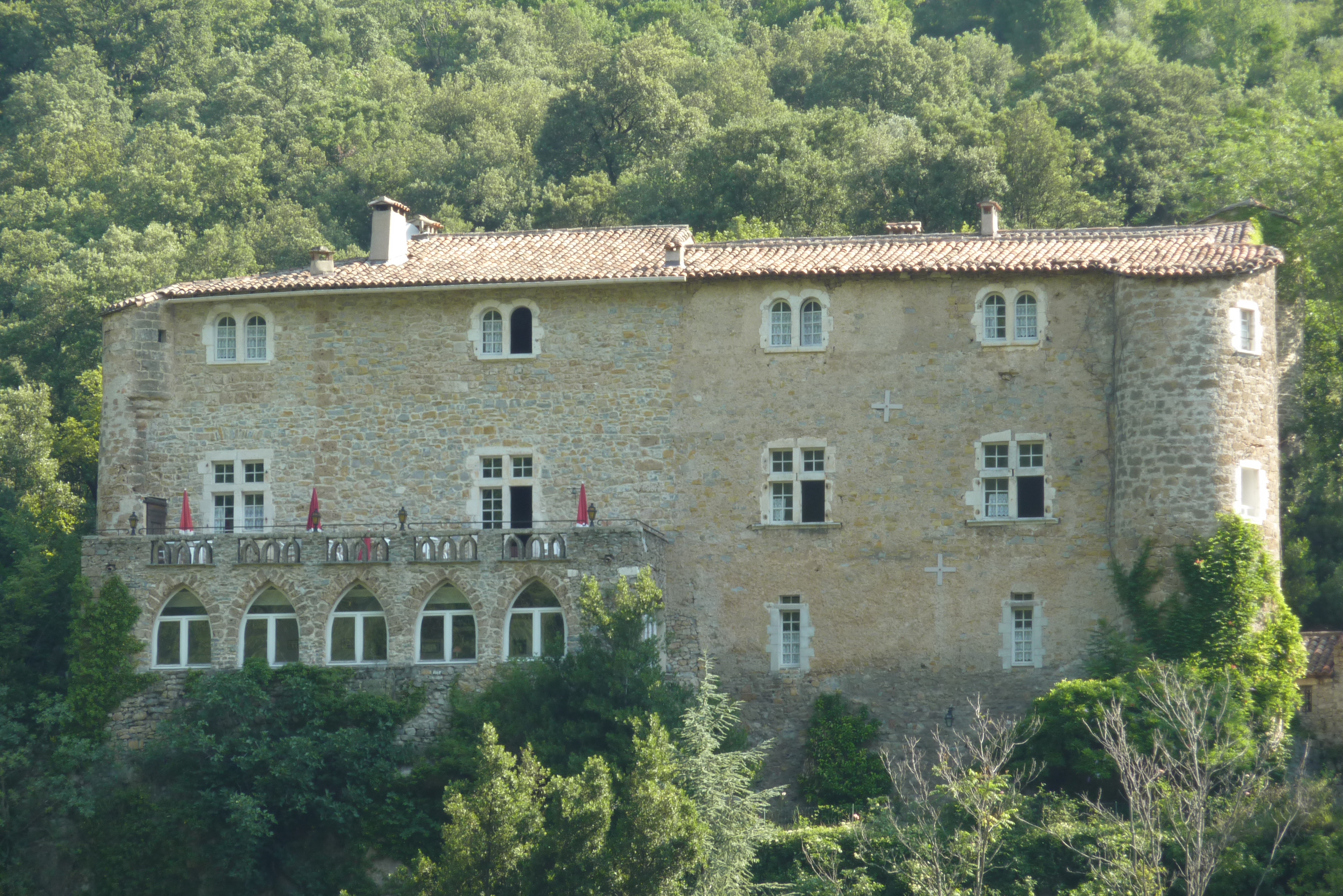 Hotel in Madières.